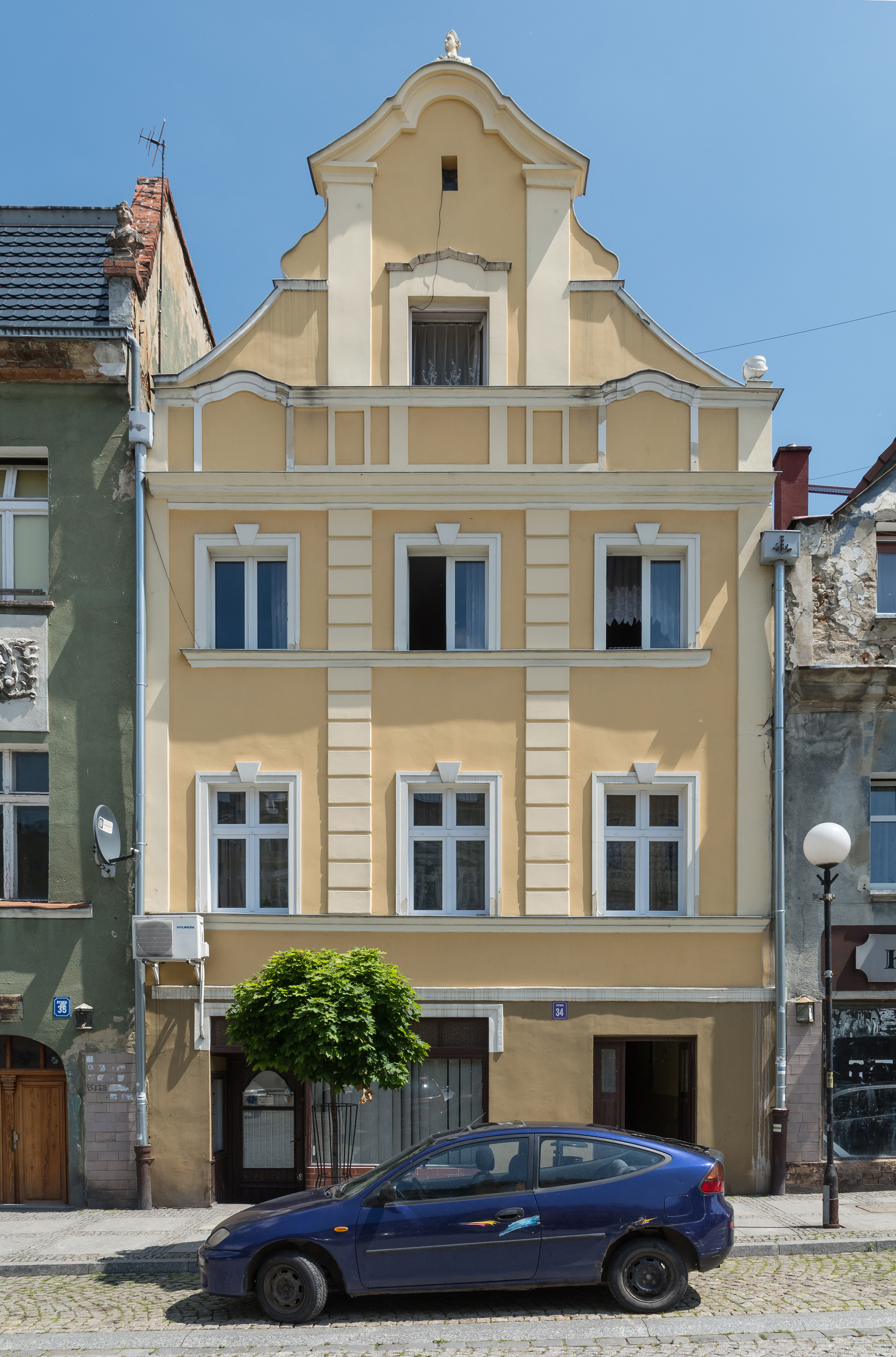 34 Market Square in Niemcza